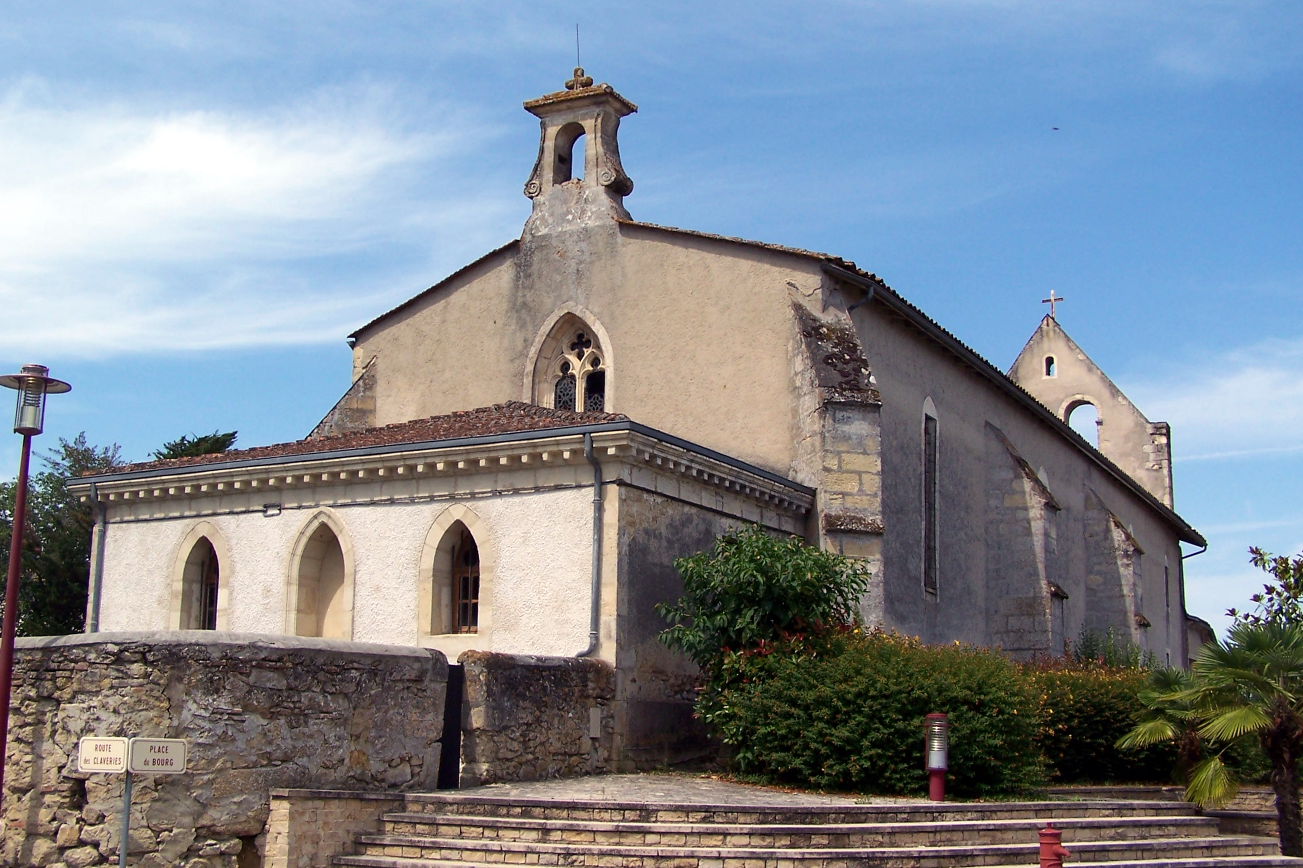 Church of Fargues (Gironde, France)